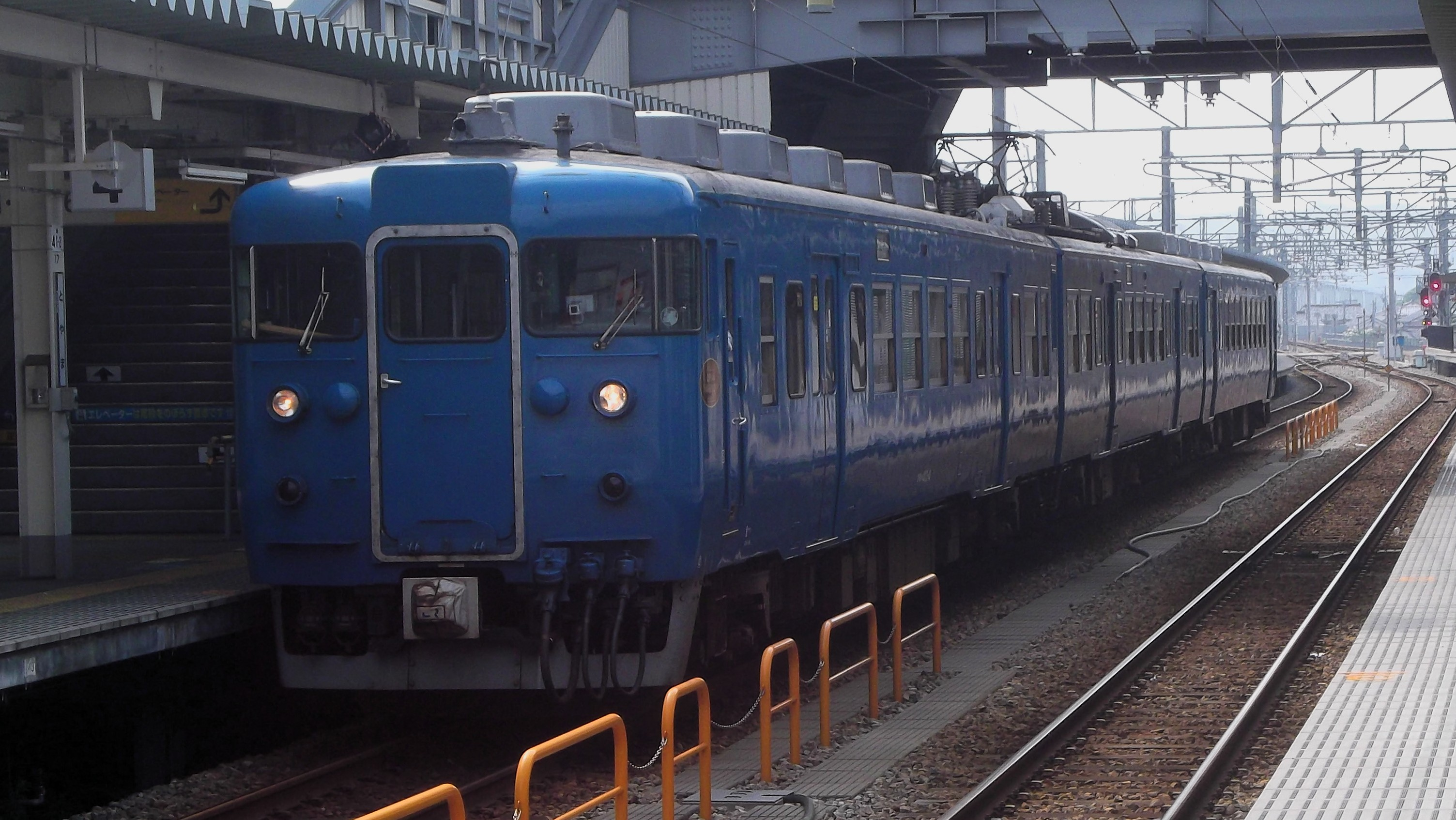 JR West 413 series EMU set B04 at Toyama Station in Toyama, Japan